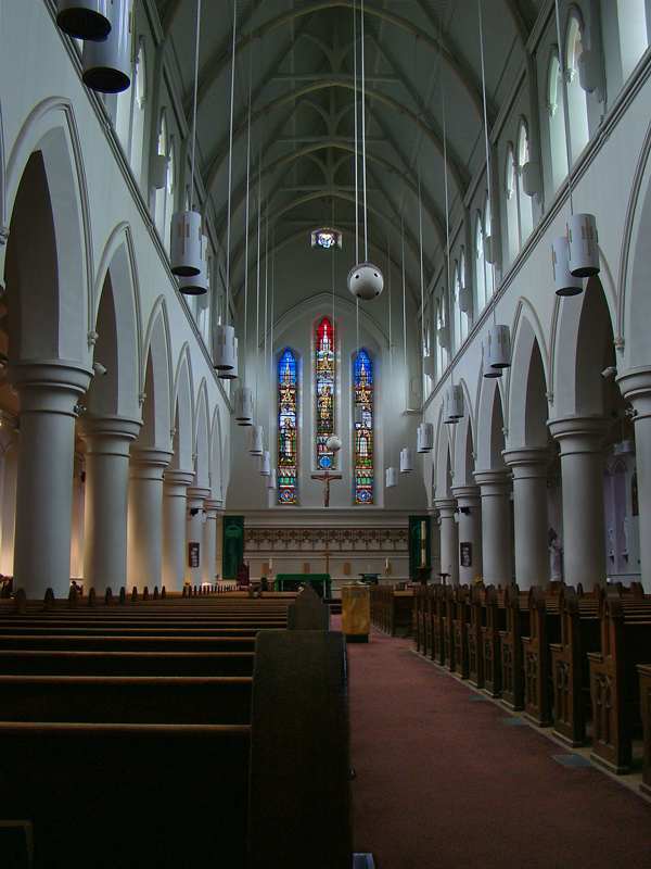 St. Patrick's Church, St. John's, Avalon Peninsula, Newfoundland, Canada.